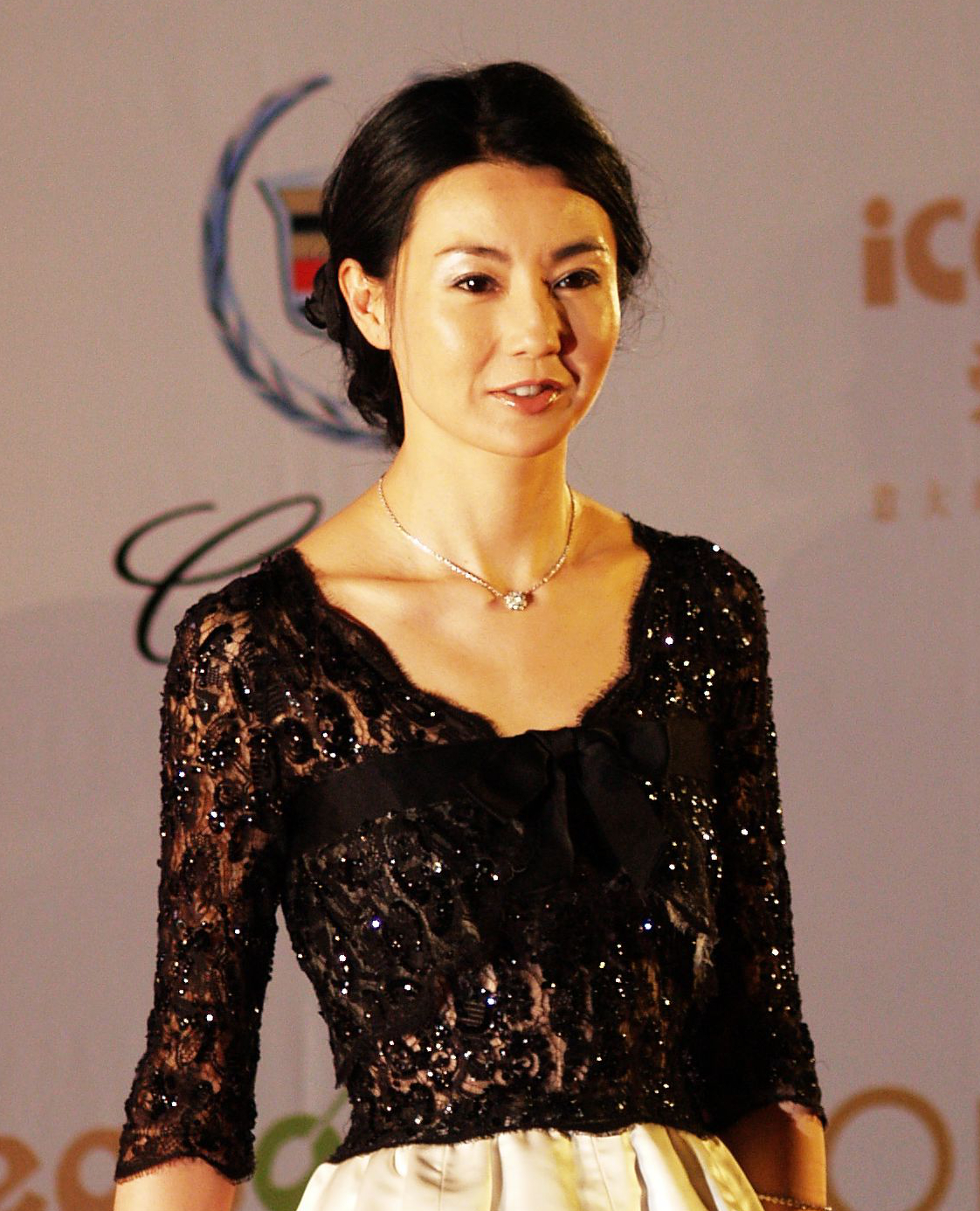 Maggie Cheung at the Shanghai movie festival (2007).